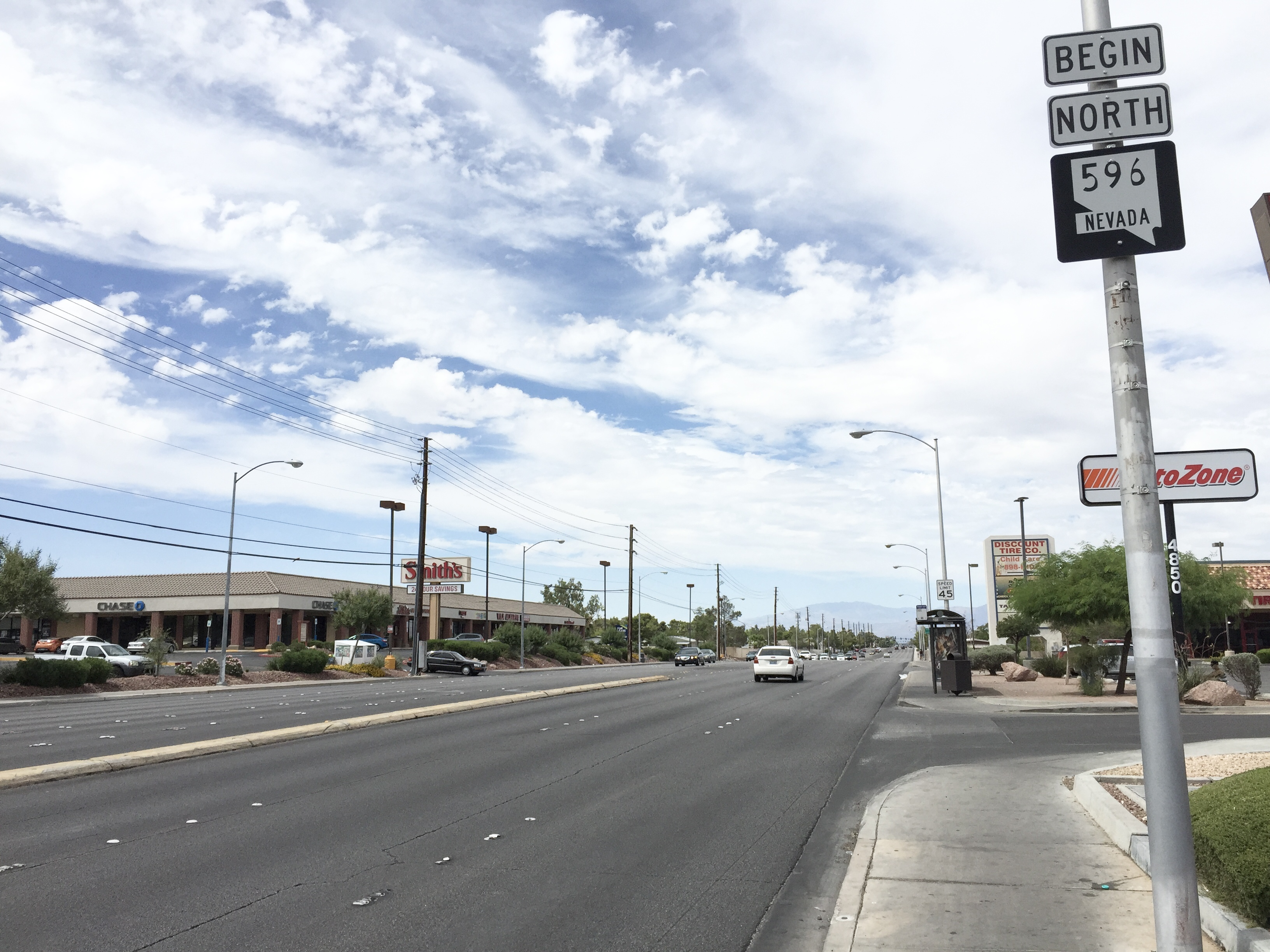 View north from the south end of Nevada State Route 596 (Jones Boulevard) near Las Vegas, Nevada